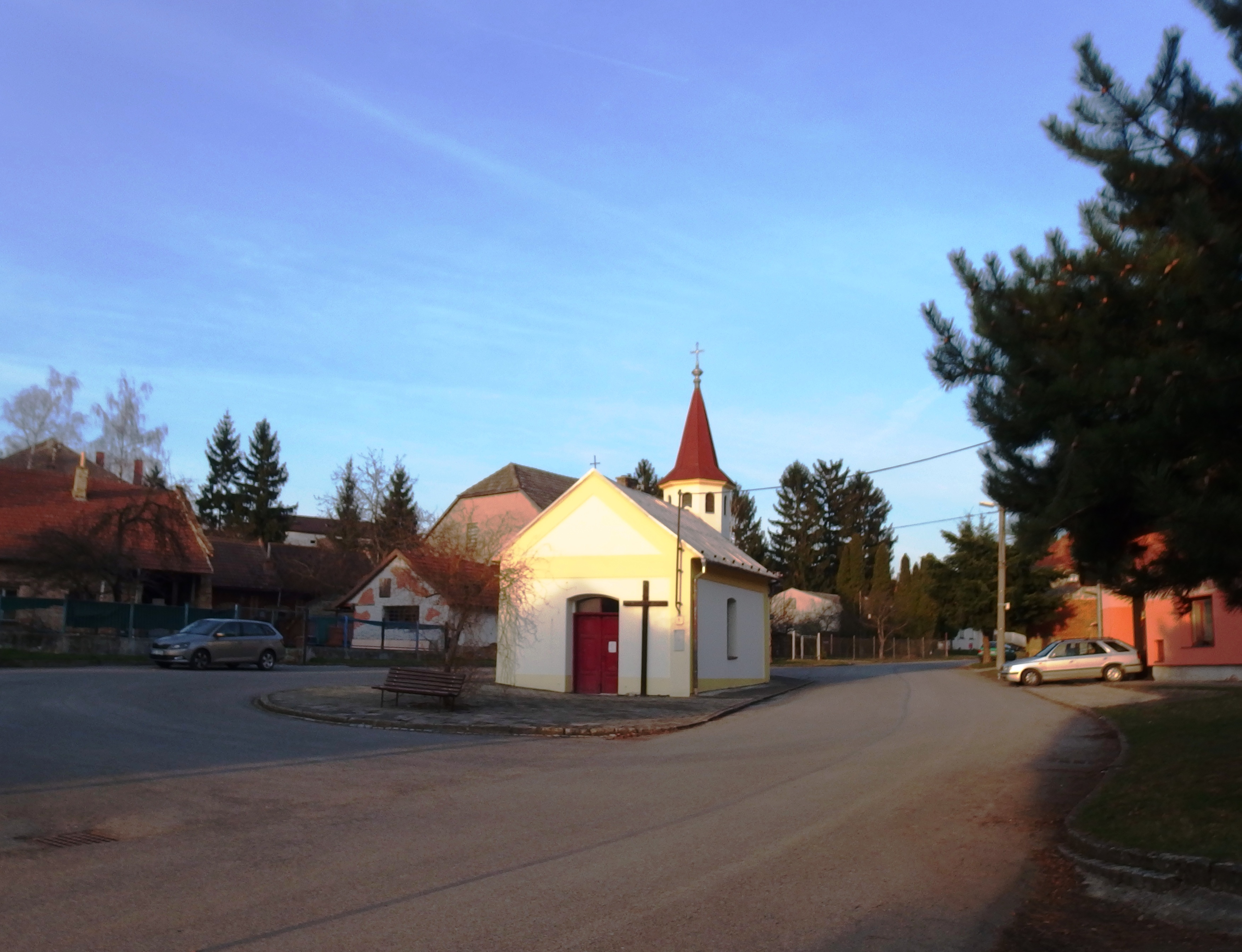 Kojetín, Přerov District, Czech Republic, part Kovalovice.